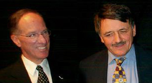 "Doc" Emrick and "Chico" Resch, the TV play-by-play and color "voices" of the NHL New Jersey Devils.